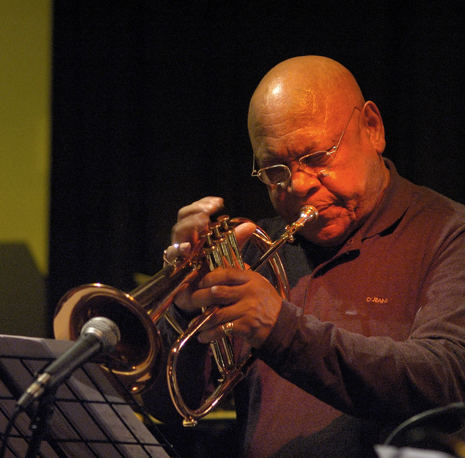 British trumpeter Harry Beckett in the Vortex Jazz Club, January 2007